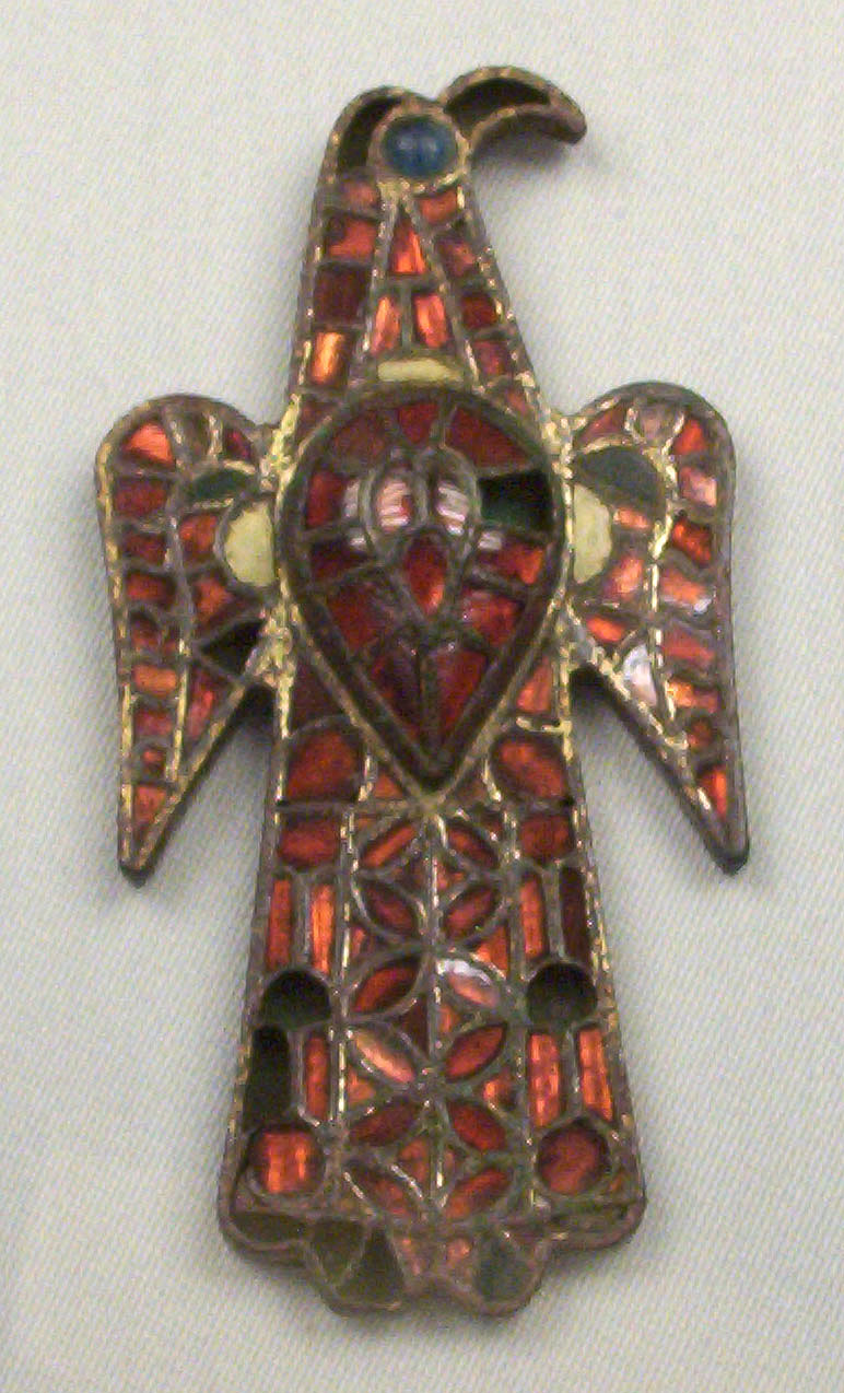 Eagle-shaped Visigothic fibula.